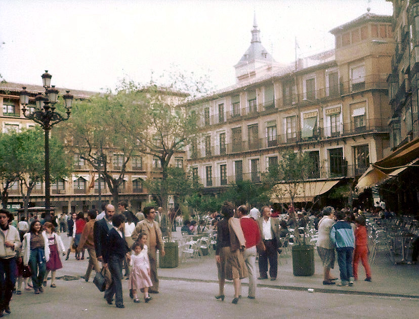 Toledo's Plaza Mayor, a popular gathering place for both locals and tourists